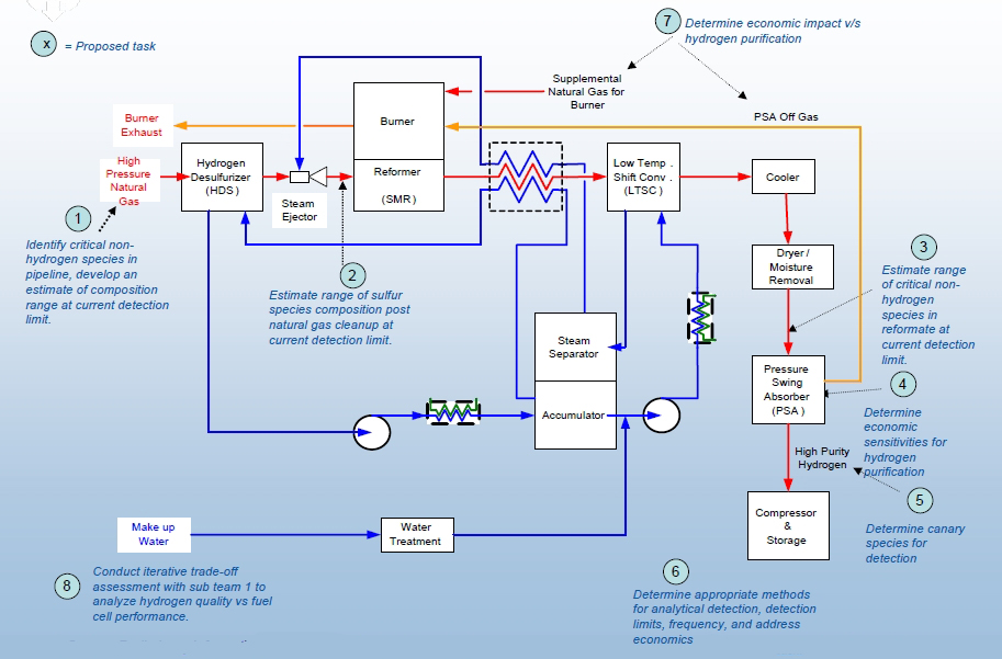 Hydrogen_from_natural_gas_schematics